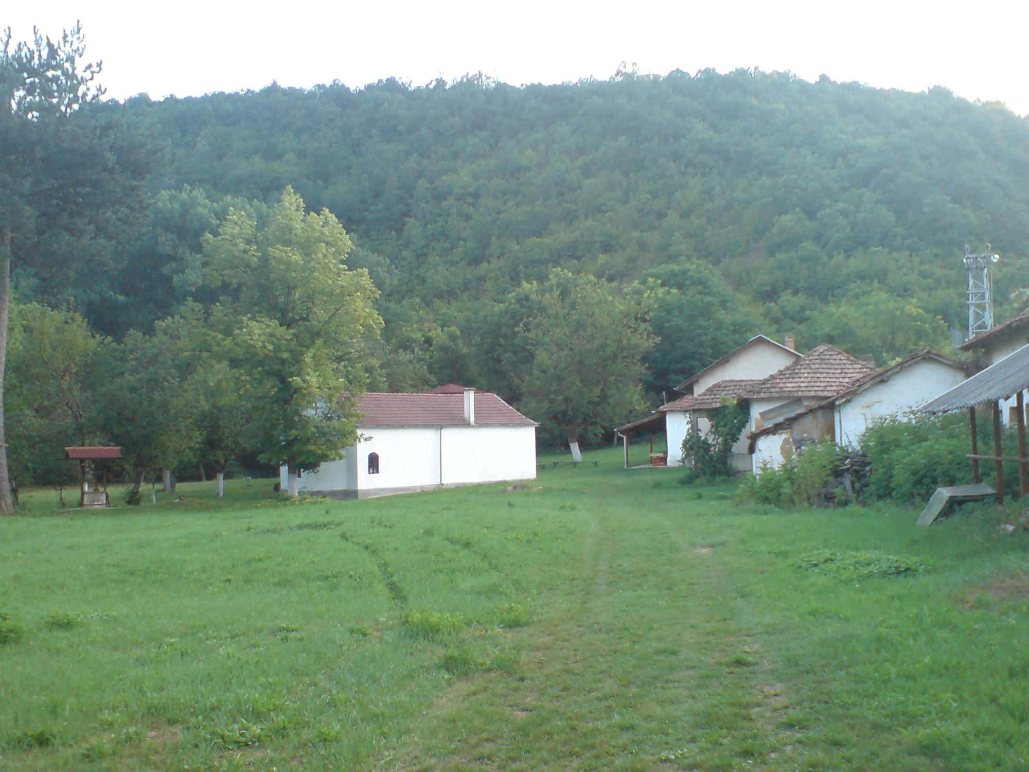 Chepurlianski monastery, near Dragoman, Bulgaria